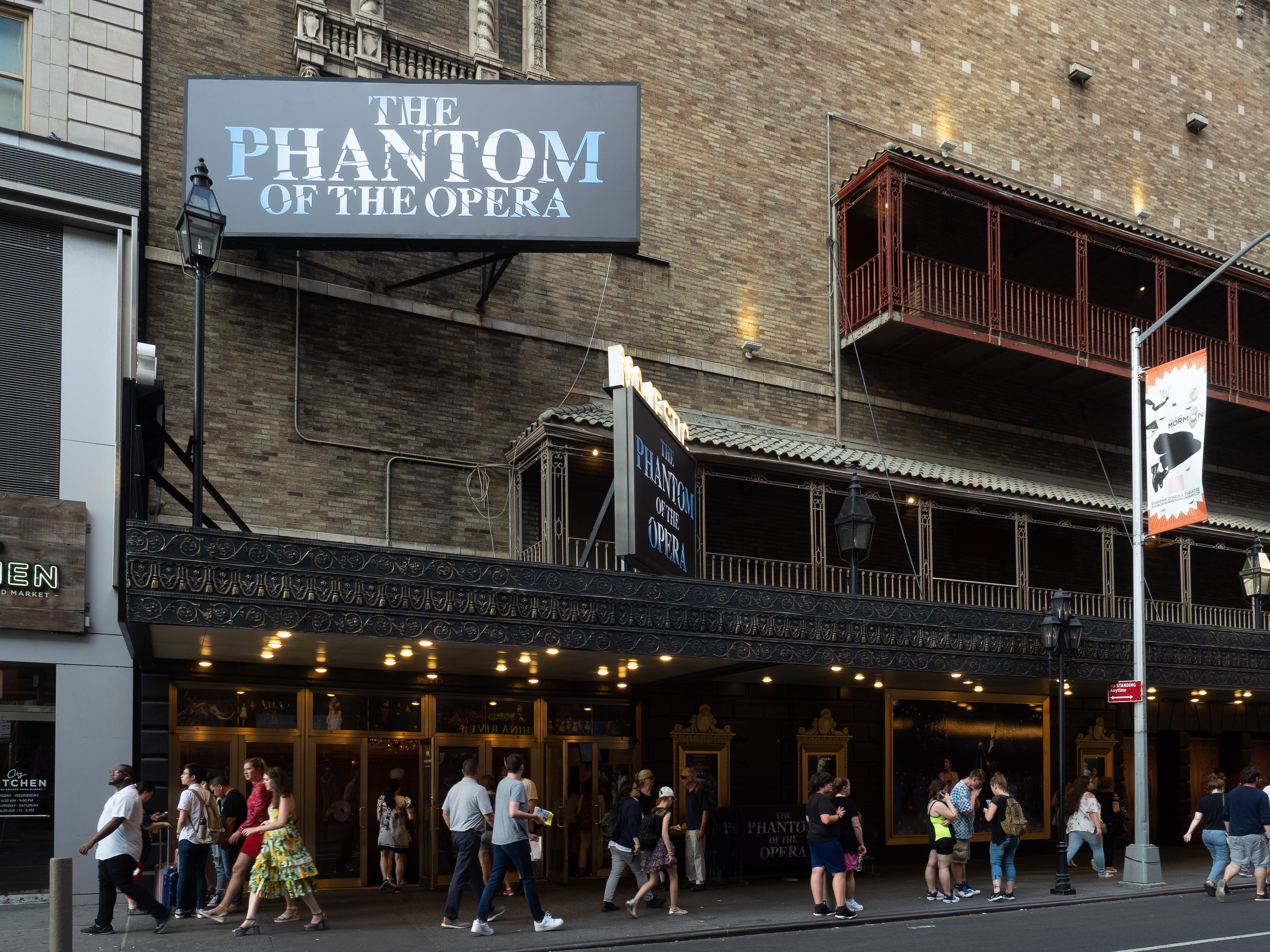 Theater District, Midtown Manhattan, NYC